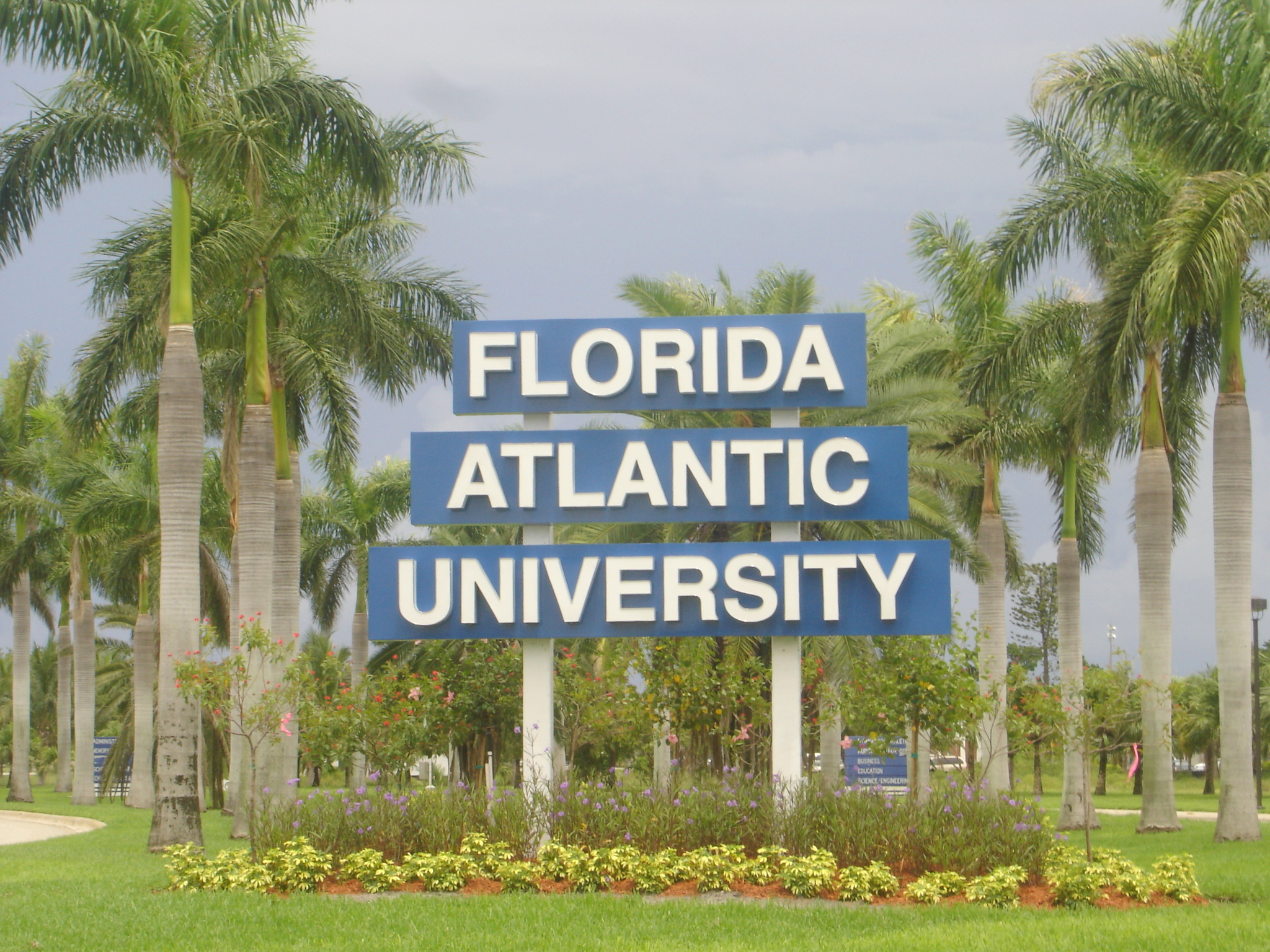 I took this picture on the Boca Raton campus of Florida Atlantic University on 8/20/06 between 12 and 1pm. KnightLago 23:44, 21 August 2006 (UTC)